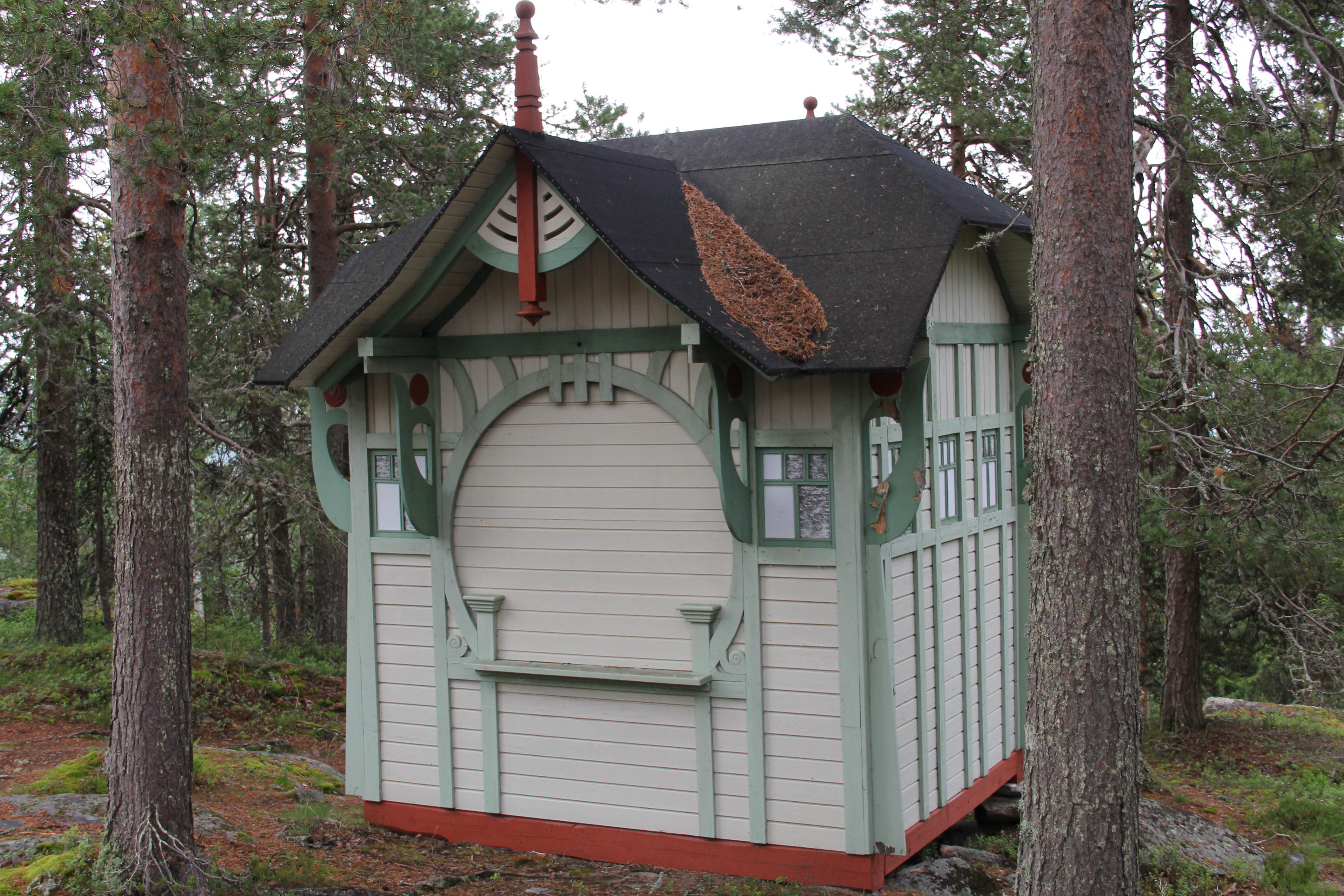 Kruununpuisto park kiosk, Aavasaksa, Ylitornio, Finland. - Old art nouveau style kiosk, completed in the 1910s in town of Tornio and moved to Aavasaksa in 1959. It was originally built by pharmacist Hans Borg.